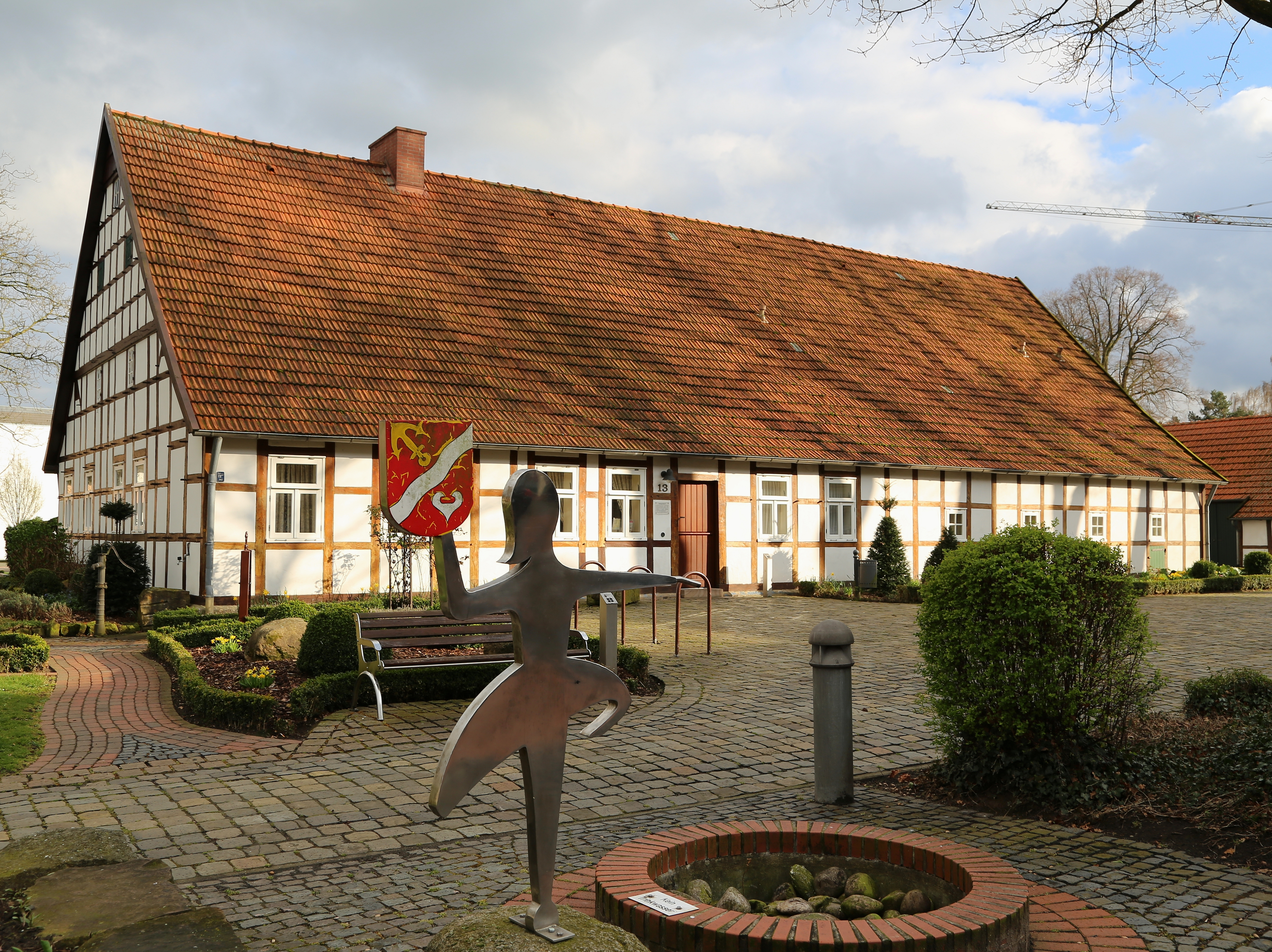 Hehwerth House (Haus Hehwerth) in Alt-Lotte, a district of Lotte, Kreis Steinfurt, North Rhine-Westphalia, Germany.